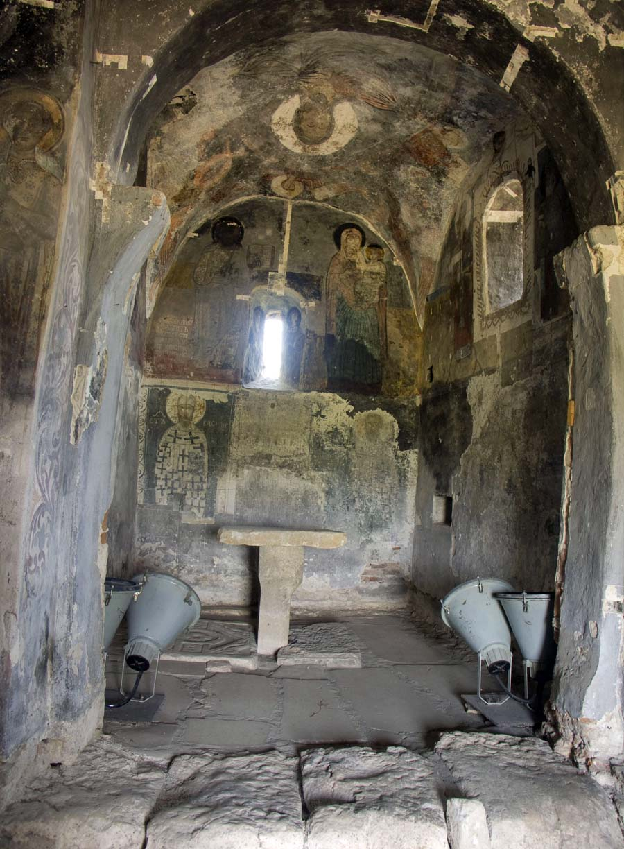 interior of the Orthodox church in Streisângeorgiu, Hunedoara County, Romania